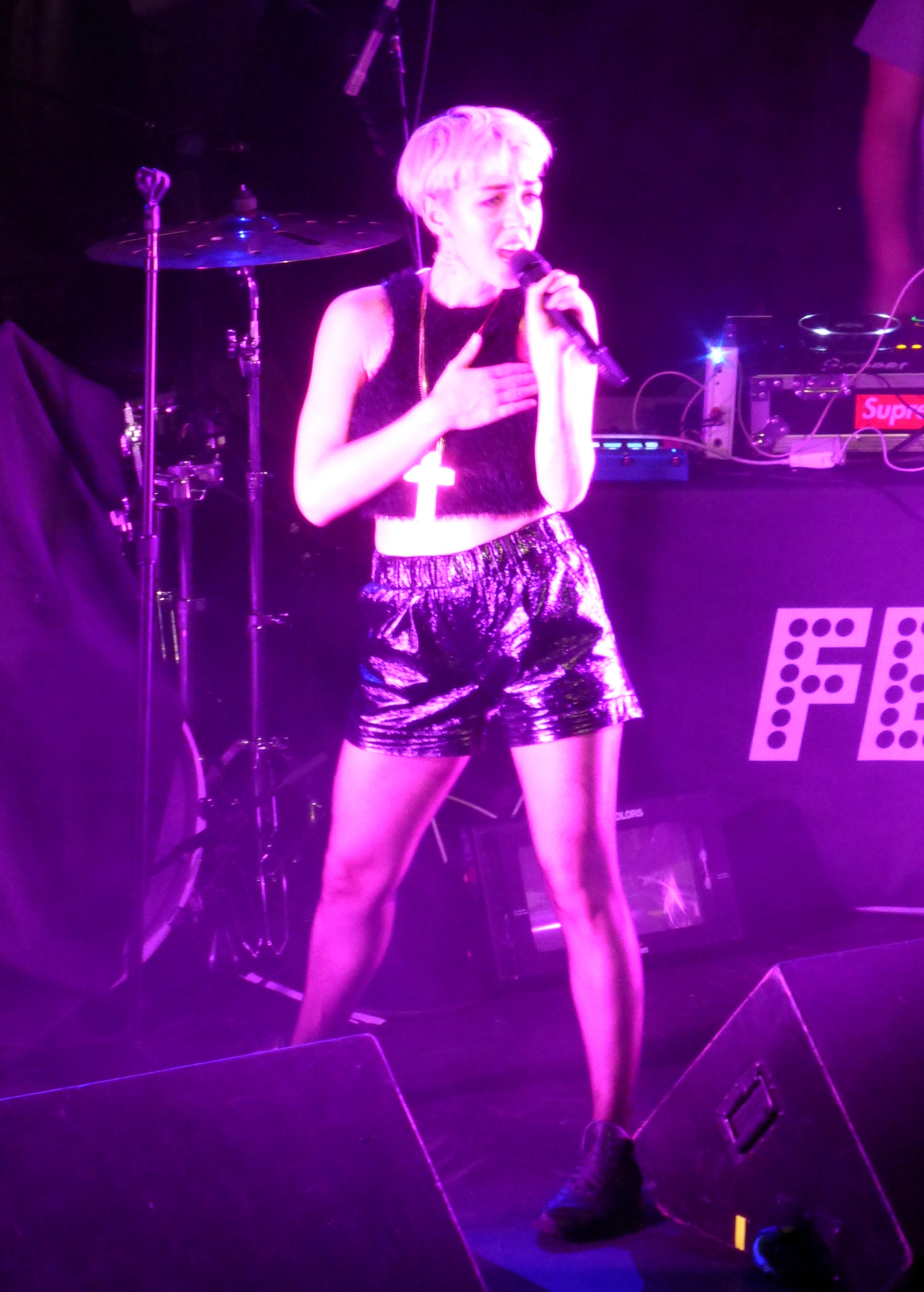 FEMME (Laura Bettinson) performing at St Andrews in Detroit, 10/11/14